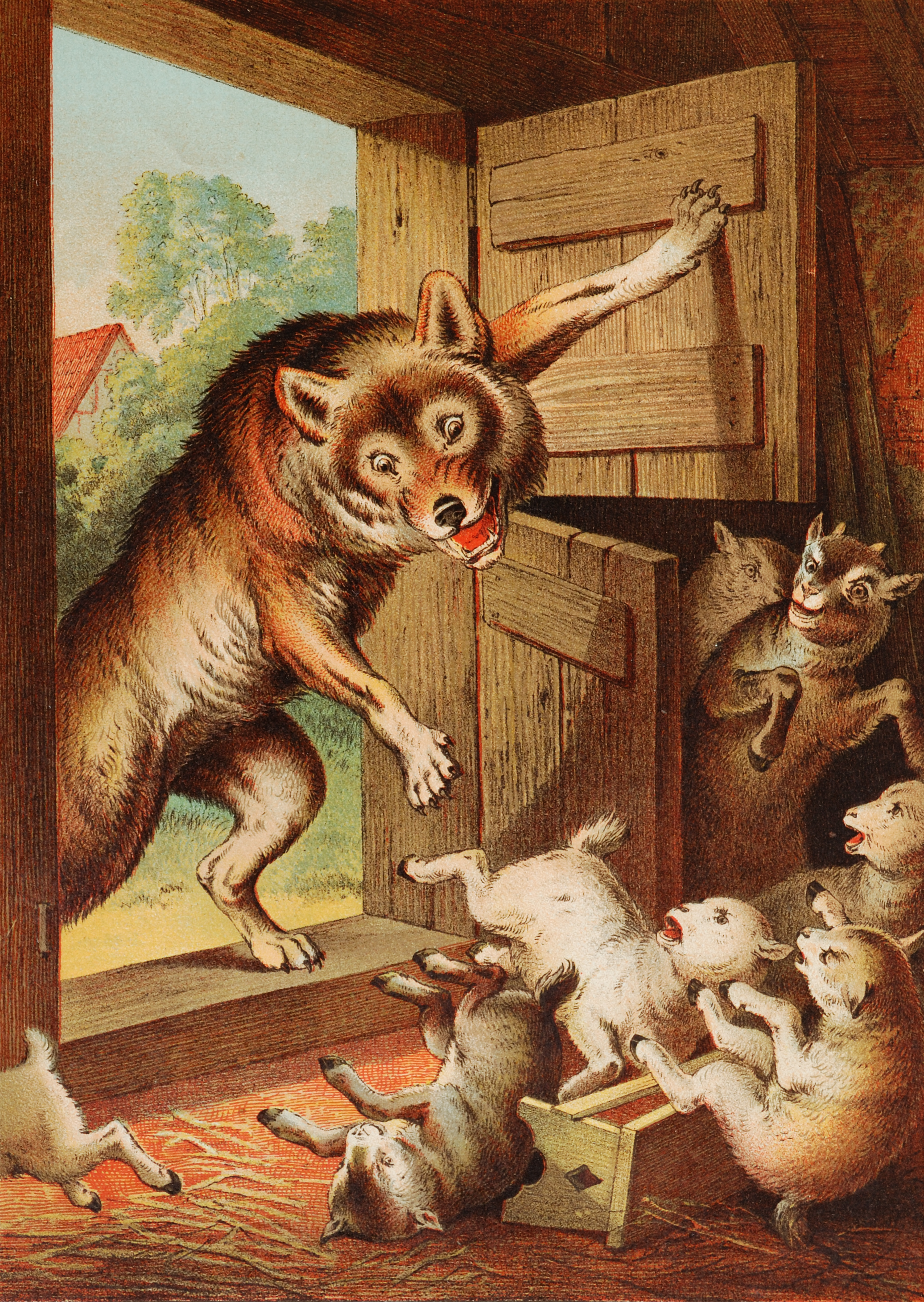 The Wolf and the Seven Young Kids, illustration by Heinrich Leutemann or Carl Offterdinger